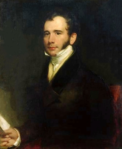 William Thomas Brande (1788-1866), oil on canvas